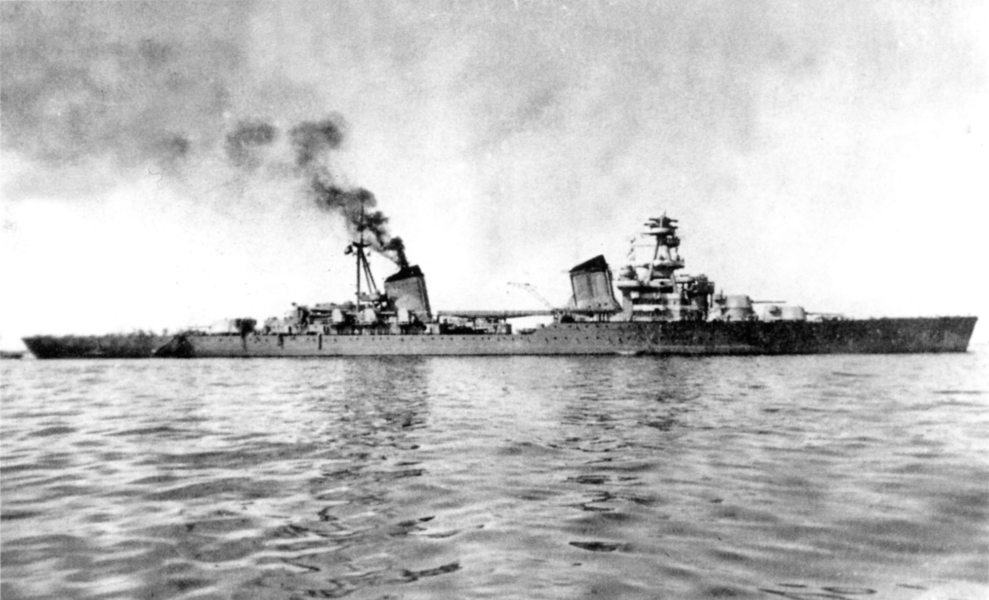 The Soviet cruiser Kirov, 1941.